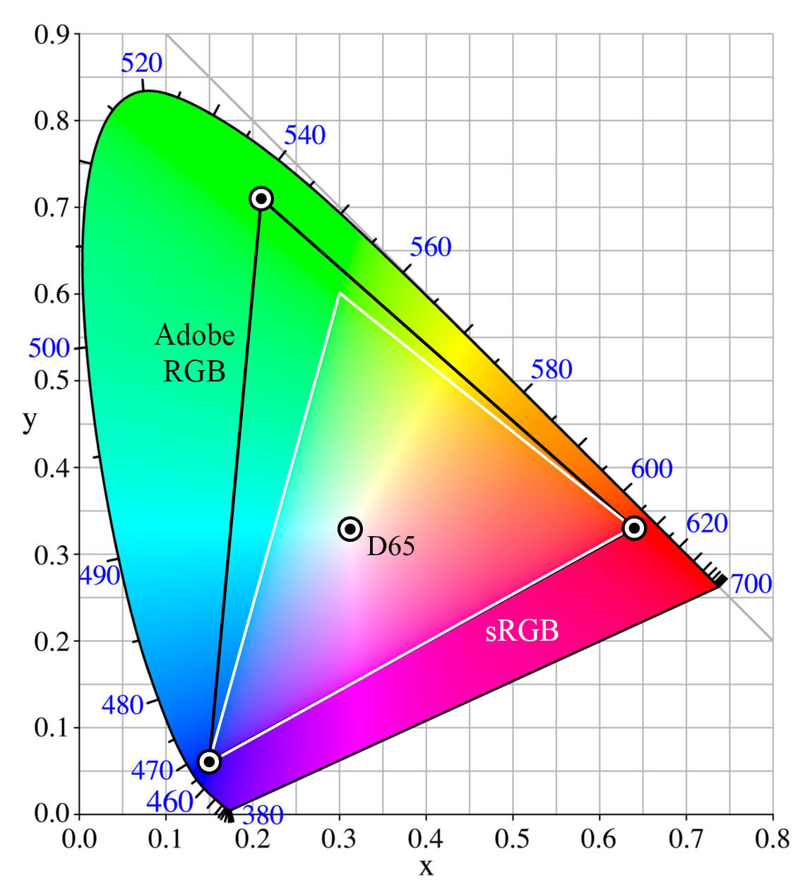 A comparison of the Adobe RGB and sRGB color spaces within the CIE 1931 xy chromaticity diagram.